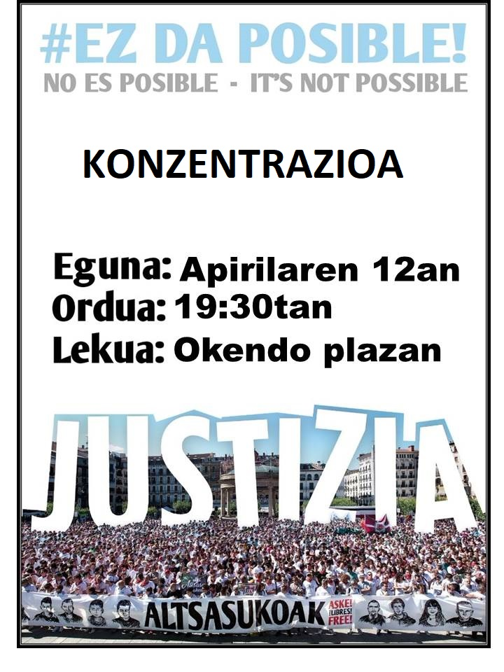 Call for a meeting in Lasarte to denounce the status of the defendants in the Altsasu incident